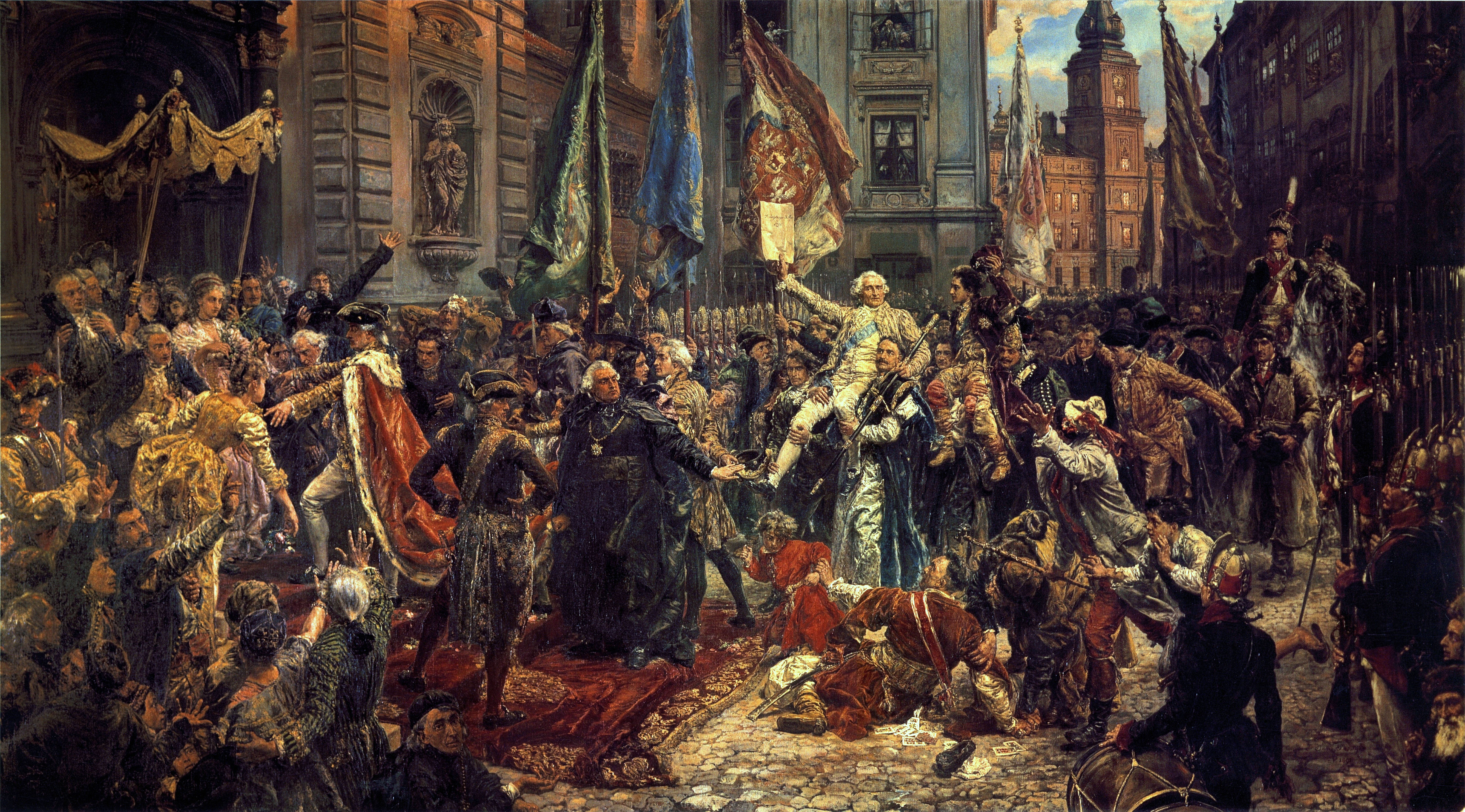 Adoption of the Polish-Lithuanian Constitution of May 3, 1791. The painting depicts King Stanislaus Augustus together with members of the Grand Sejm and inhabitants of Warsaw entering St John’s Cathedral in order to swear in the new national constitution just after it had been adopted by the Grand Sejm in the Royal Castle visible in the background. May 3rd Constitution was the first written national constitution in Europe, and the world’s second, after the United States Constitution. The May 3rd Constitution was adopted by the Sejm of the Polish-Lithuanian Commonwealth on May 3, 1791